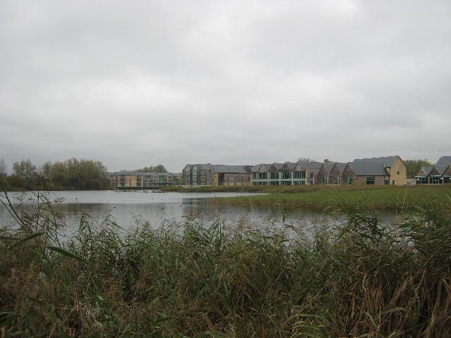 Cotswold Water Park Looking across the flooded former gravel pits towards some of the buildings erected as part of the water park development.